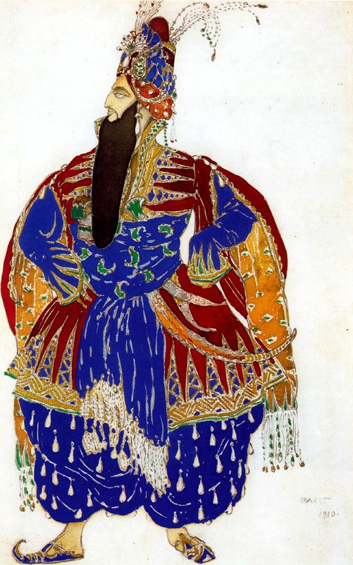 Шахрияр Designi for Alexei Bulgakov's Costume as Shahriar 1910. Pencil, watercolor, gouache, gold and silver paint (laid down). 35,5 x 22 cm. Thyssen-Bornemisza Collection. Lugano.